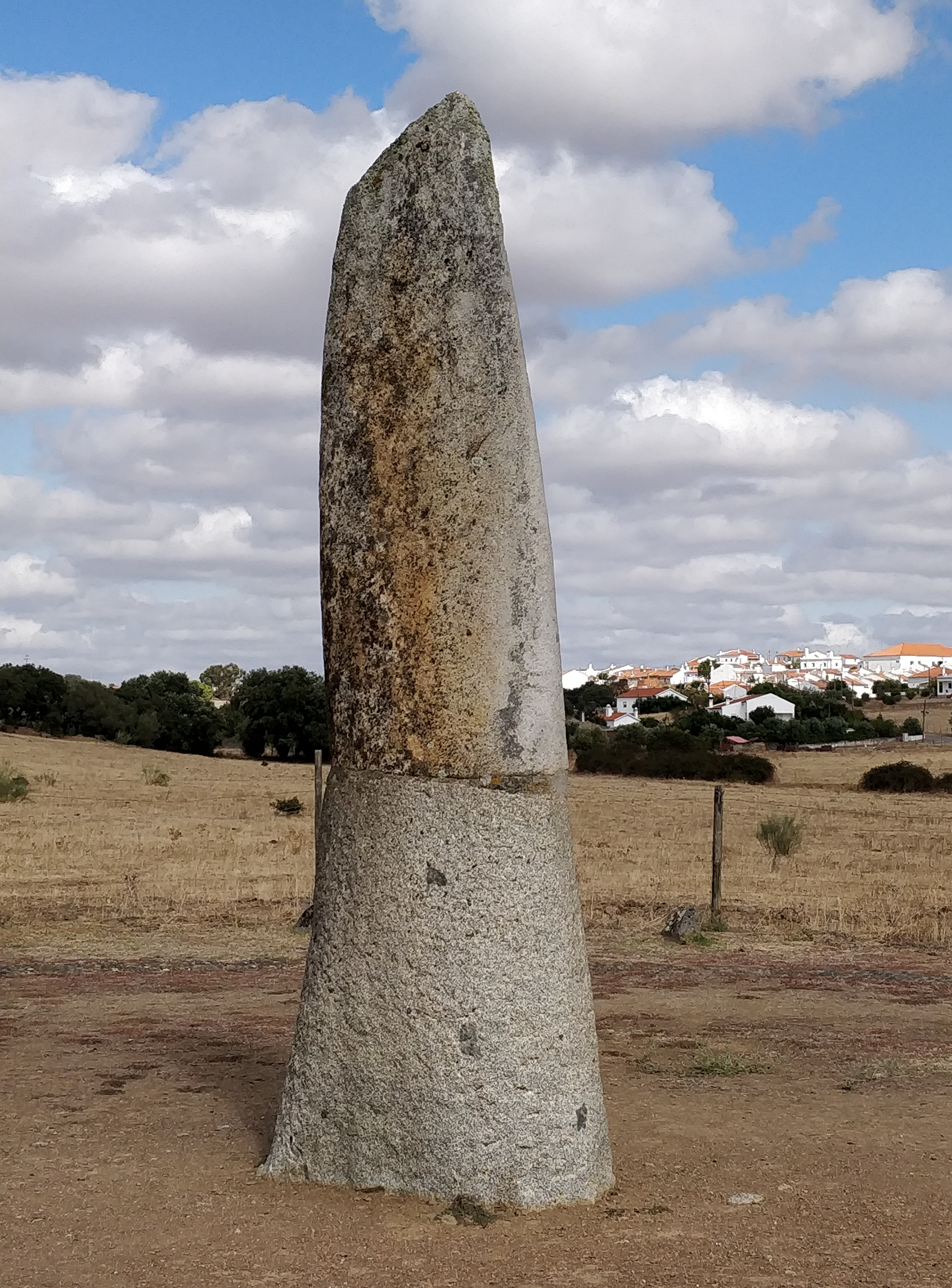 The Menhir of Bulhoa is also known as the Menhir of Abelhoa. It is a phallic monolith and found in the Evora District of the Alentejo region of Portugal.